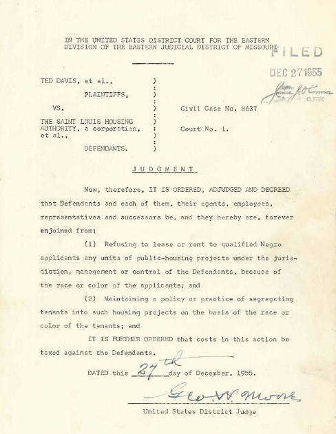 This was a landmark decision in the US District Court for the Eastern District of Missouri prohibiting racial discrimination and segregation in public housing in St. Louis, Missouri.